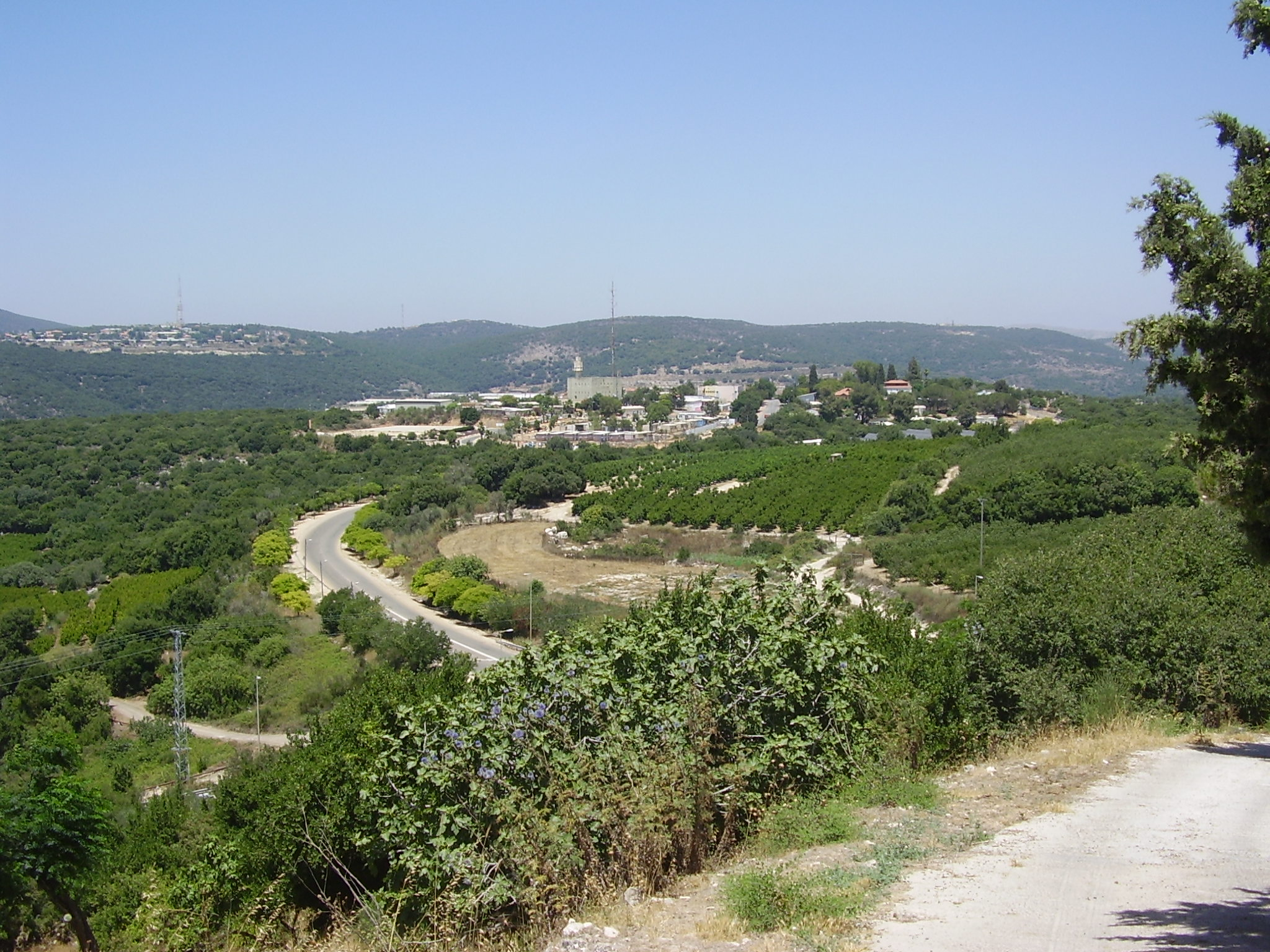 shomera in upper galilee